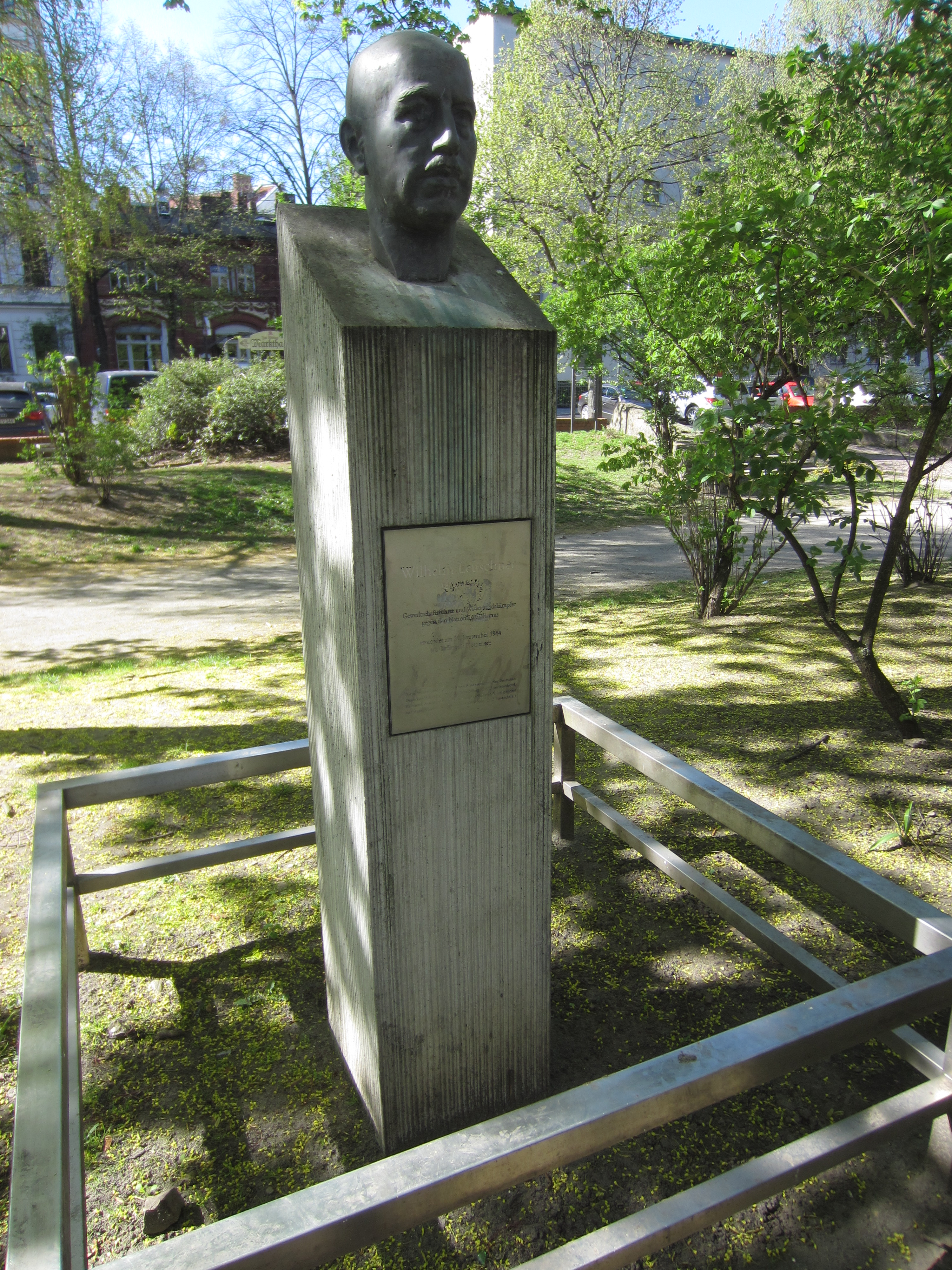 Berlin, Germany (April 2016)